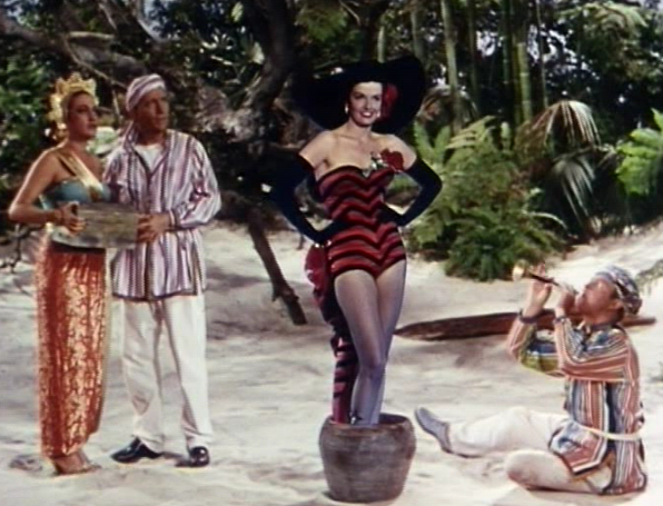 Cropped screenshot of Dorothy Lamour, Bing Crosby, Jane Russell and Bob Hope from the film Road to Bali.